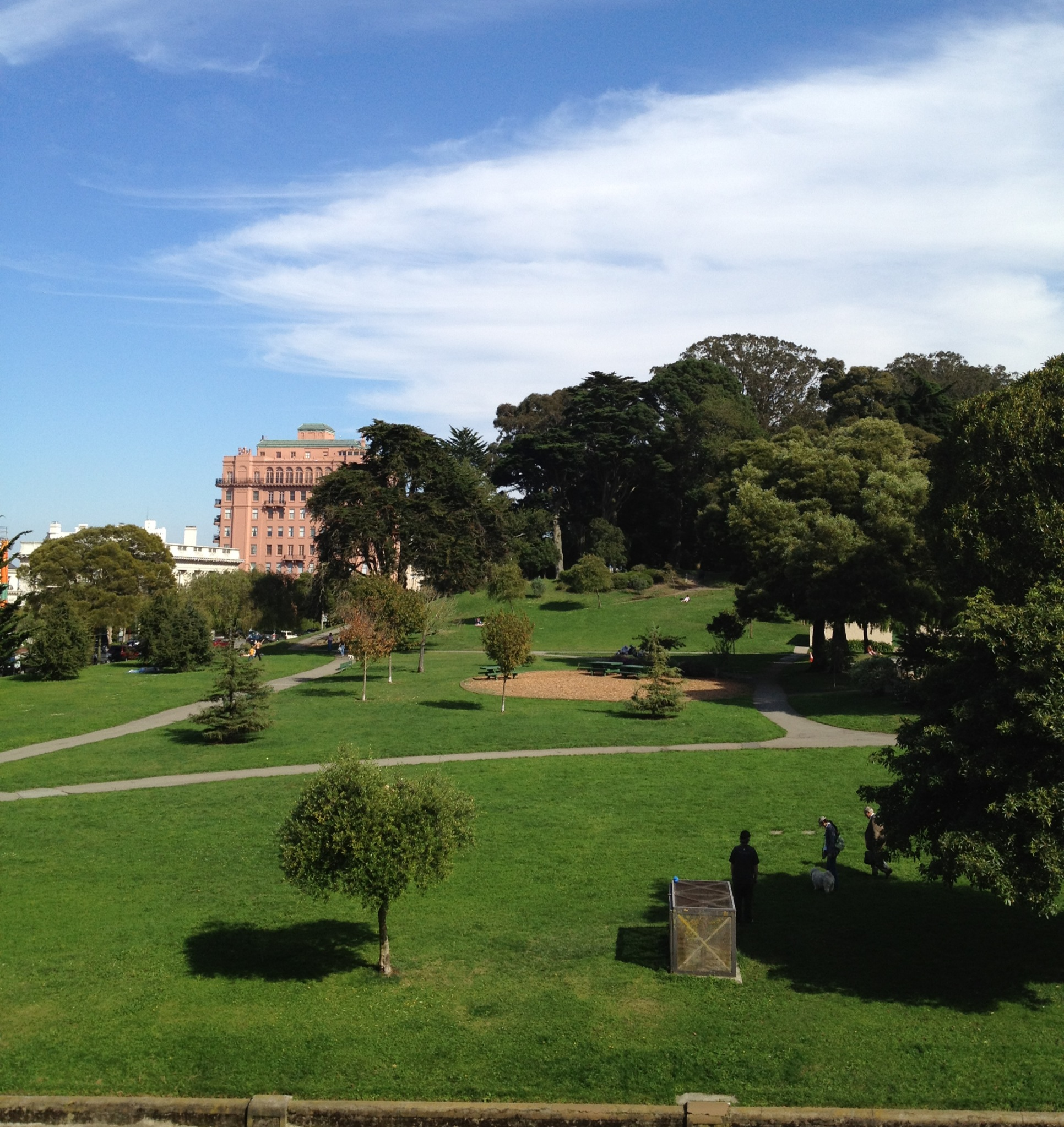 Photograph of the northwestern quadrant of Lafayette Park, looking east from the park's western edge, taken from the third floor of the Lafayette Manor Apartments building.